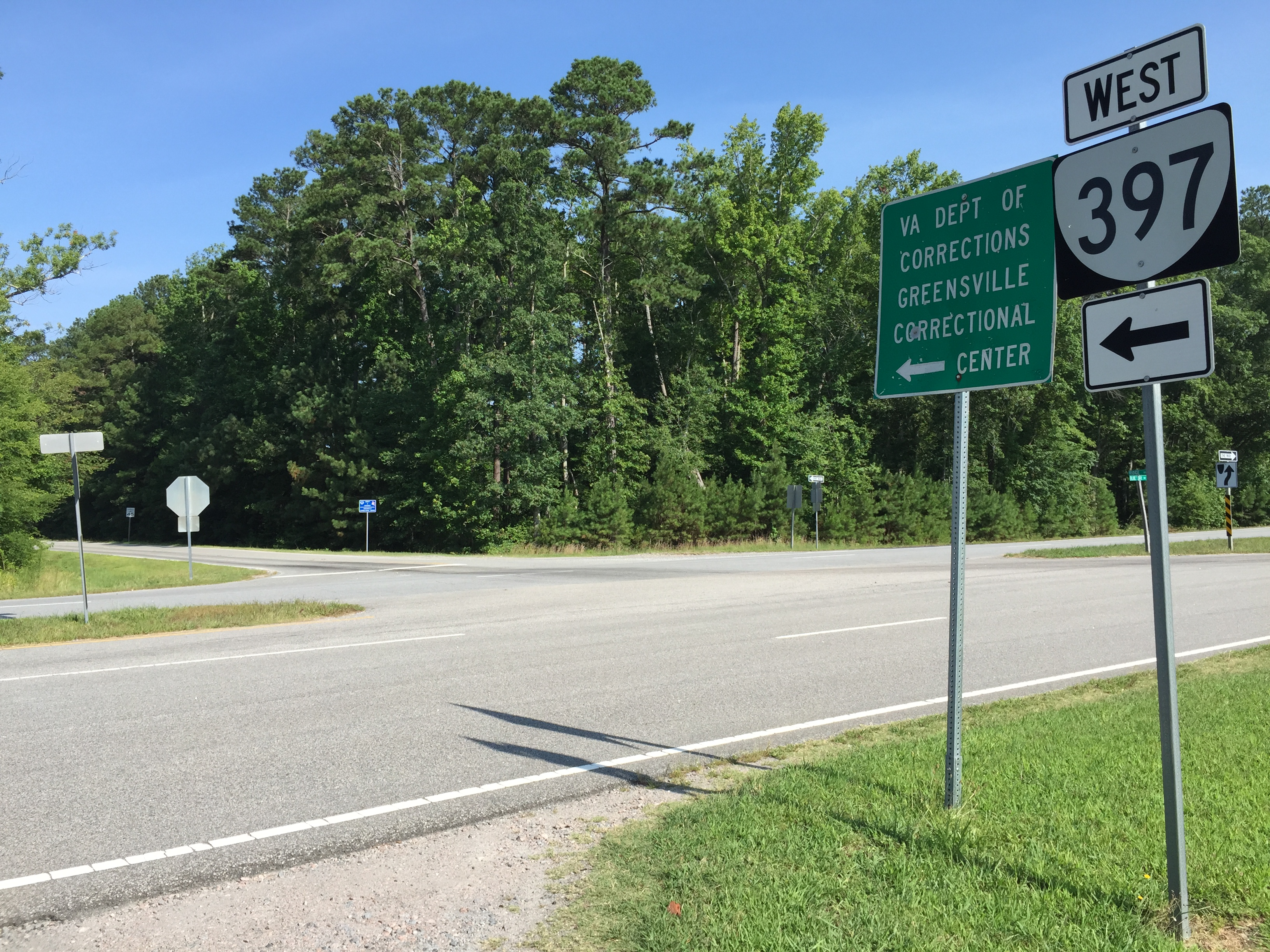 View west along Virginia State Route 397 (Ridge Road) at U.S. Route 301 (Blue Star Highway) just south of Jarratt in Sussex County, Virginia